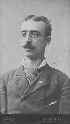 A photograph of Romanian poet Alexandru Macedonski (Macedonsky), taken in Bucharest (1878).